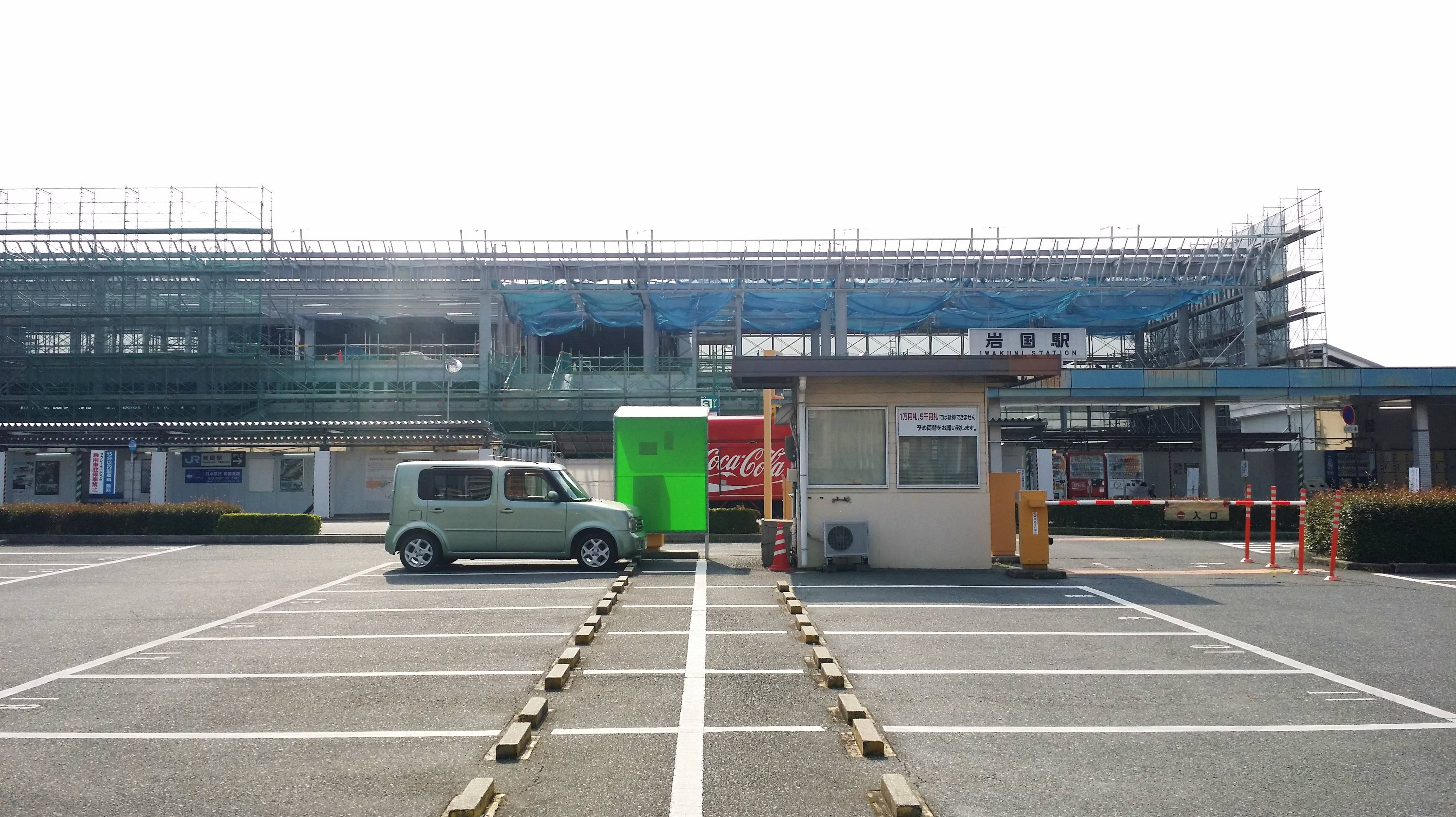 Iwakuni Station.